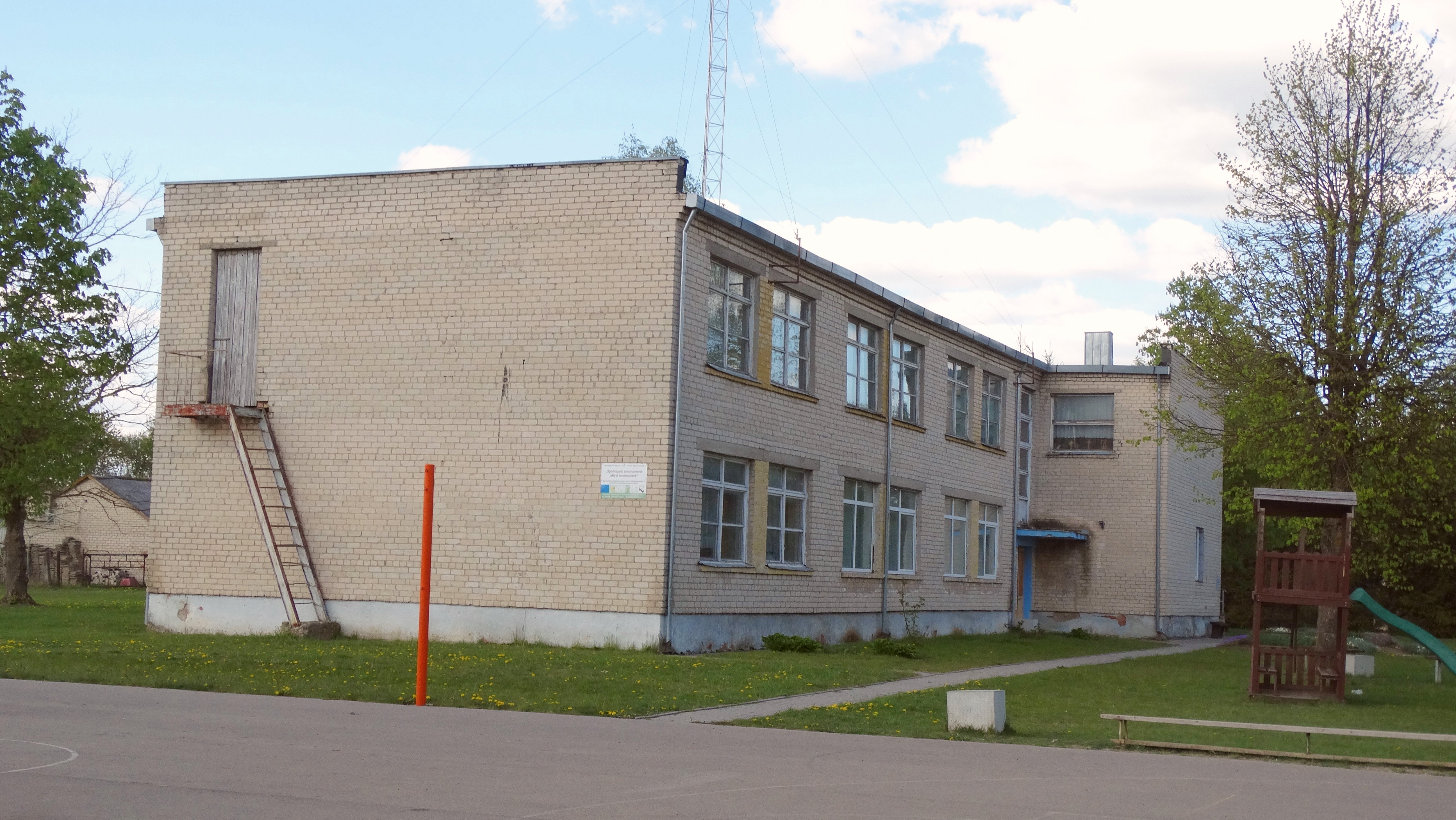 Minaičiai, school, Radviliškis district, Lithuania